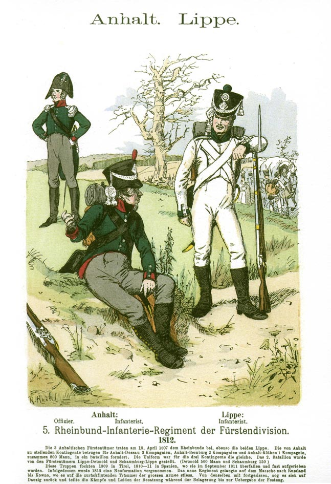 Anhalt. Lippe. 5. Rheinbund-Regiment. 1812